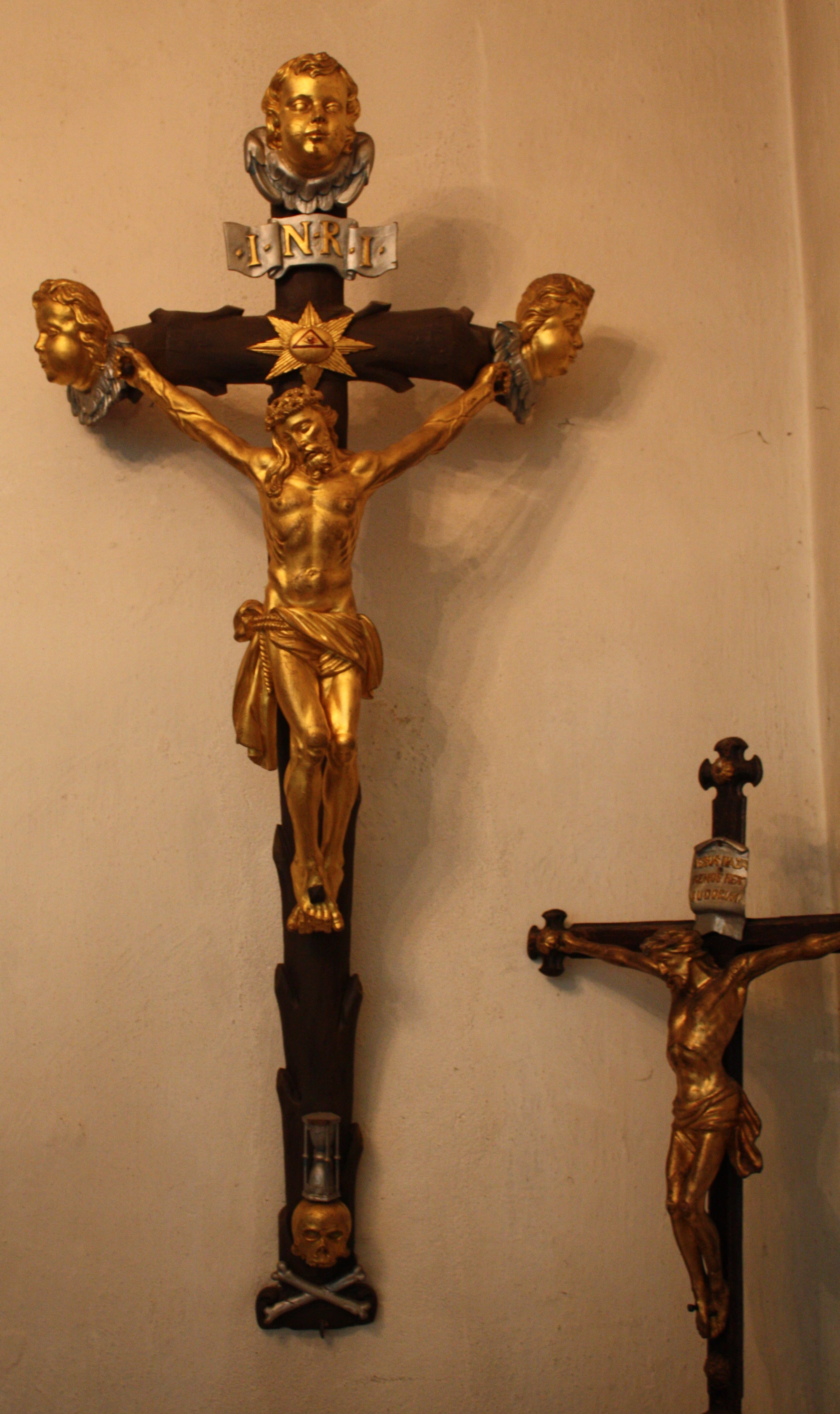 Martin Luther Church Oberwiesenthal, crucifixes in narthex.